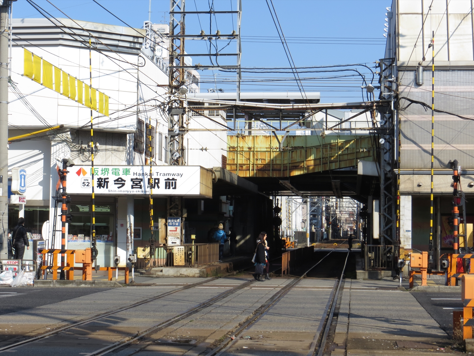 Station building of Shin-imamiya-ekimae Station, Hankai Tramway.